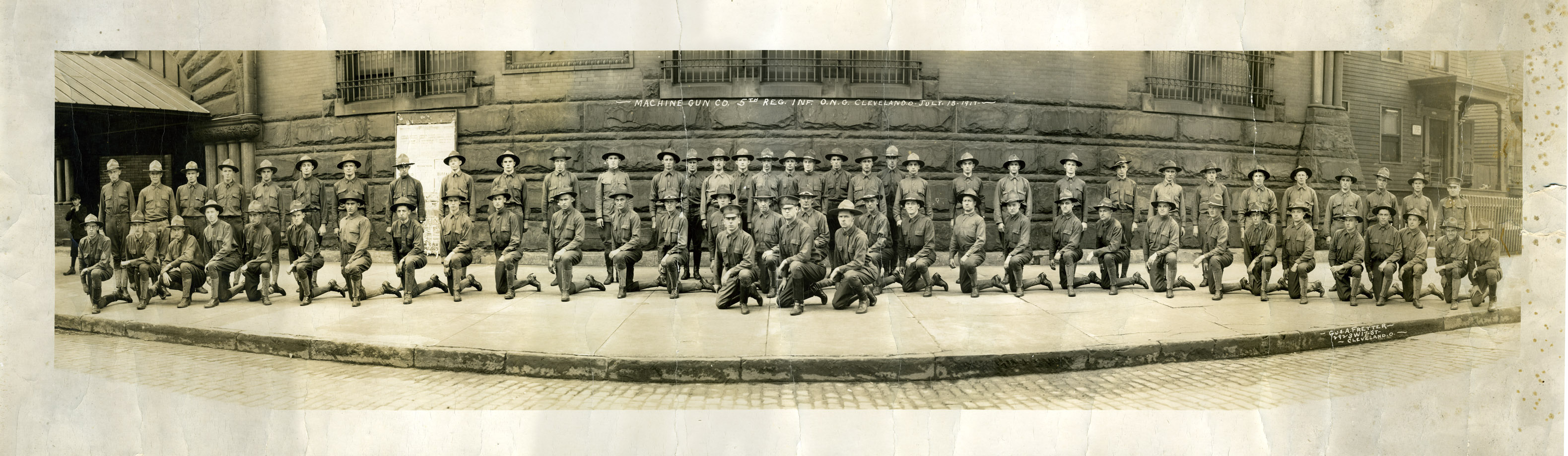 Machine Gun Company, 5th Regiment, Ohio Infantry, Ohio National Guard, in front of the Cleveland Grays Armory in Cleveland, Ohio